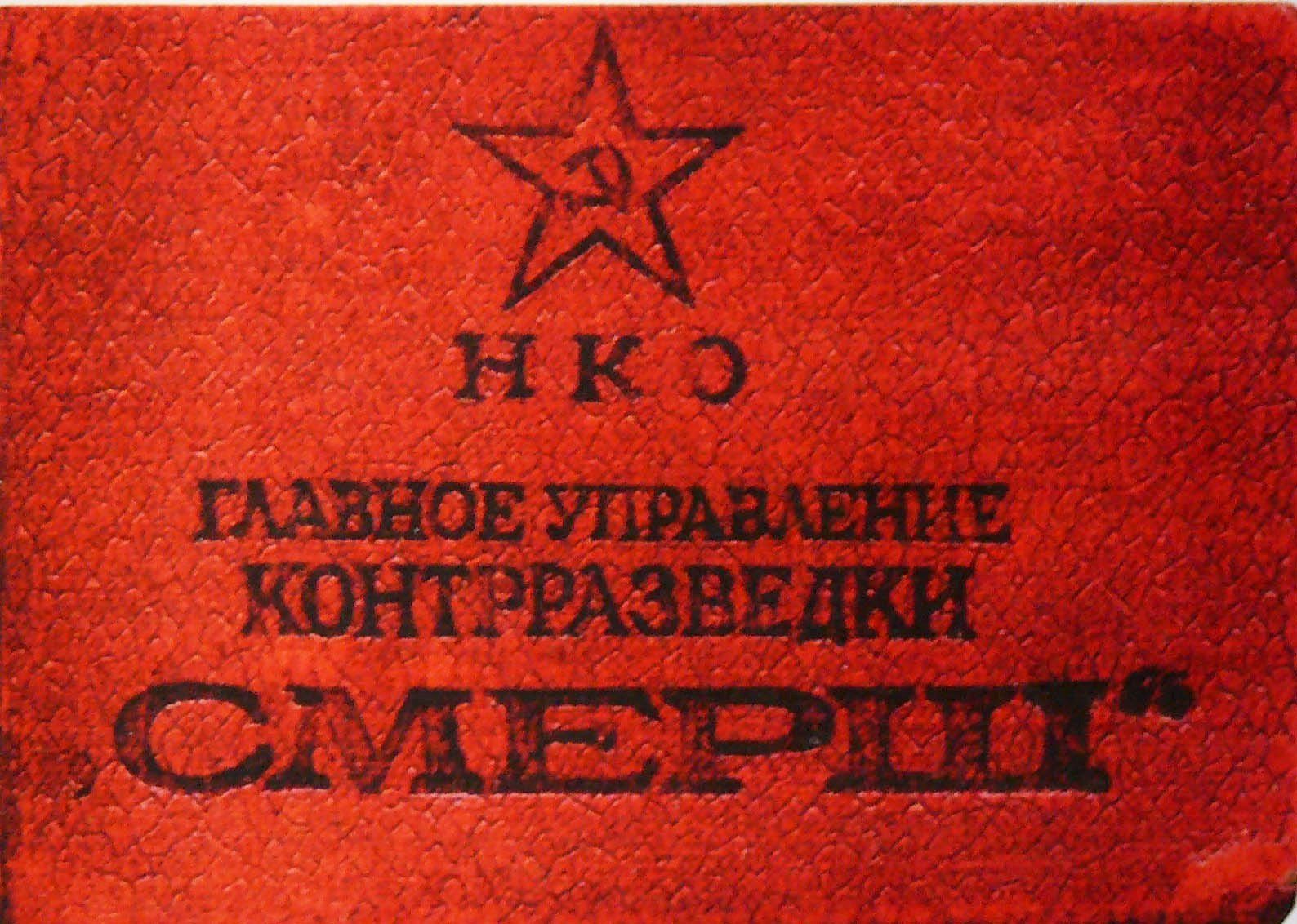 Russian (English) :НКО (Народного Комиссариата Обороны (People's Commissariat of Defense))Главного управления (Main Department)контрразведки (Counterintelligence)СМЕРШ (SMERSH)- 'Certification Cover'. USSR, 1943.СМЕРть (Death)Шпионам (Spies)